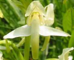 Platanthera chlorantha